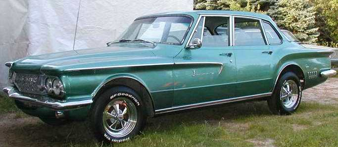 1962 Dodge Lancer